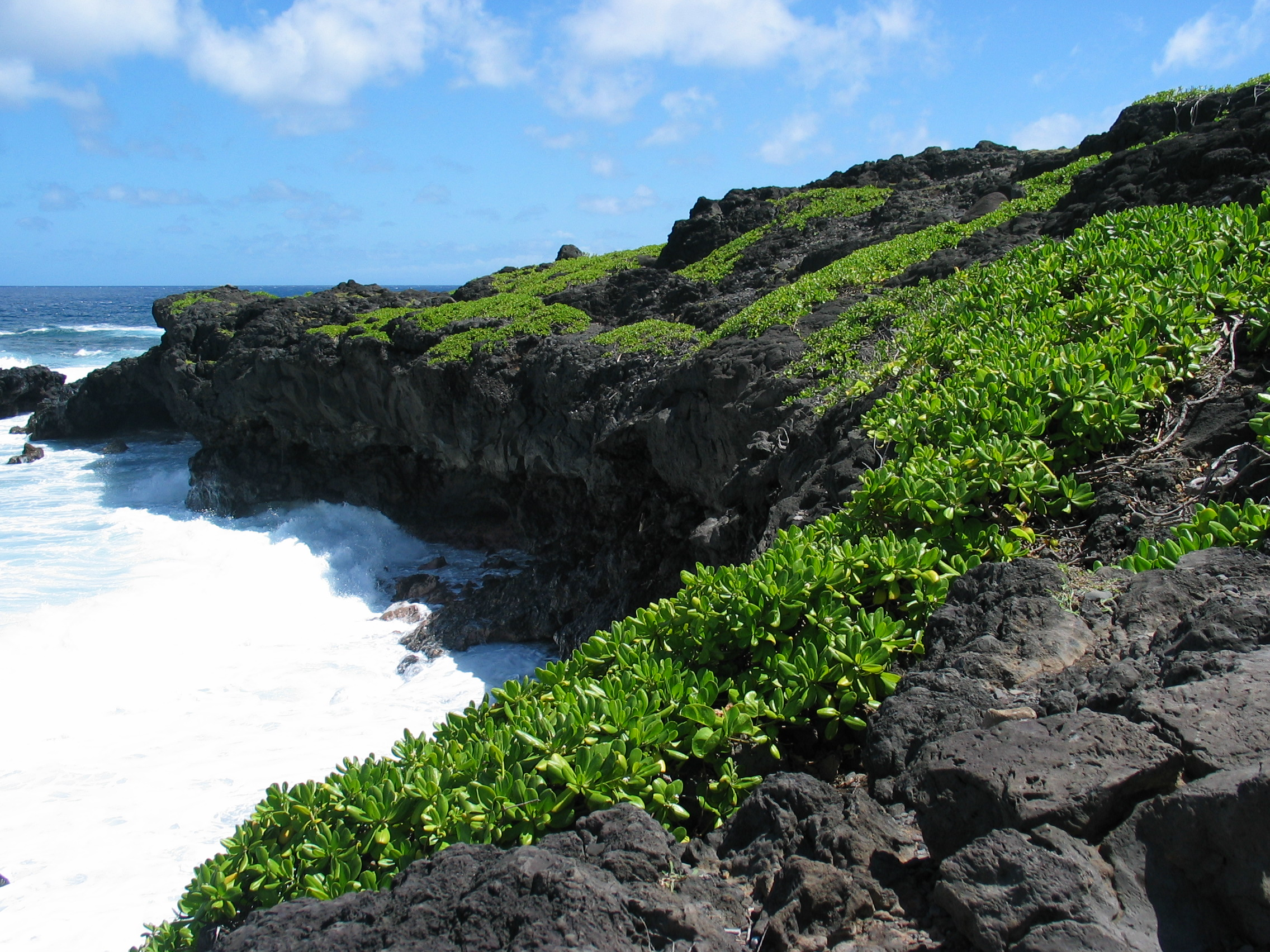 Kipahulu coastal region of Haleakala National Park